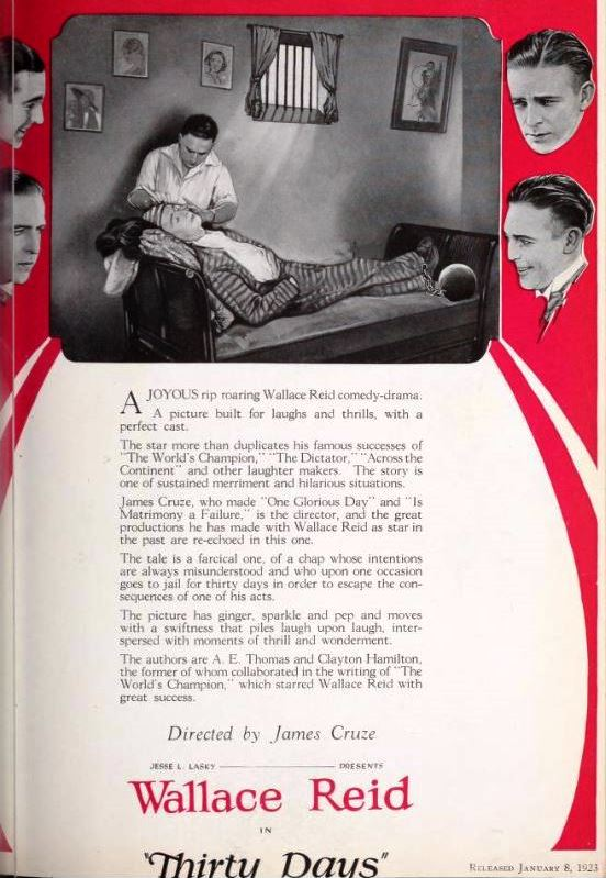 Advertisement for the American comedy film Thirty Days (1922) with Wallace Reid, from the insert after page 10 of the May 27, 1922 Exhibitors Herald. Although the ad lists a projected release date in January 1923, the film would actually be released in December 1922.